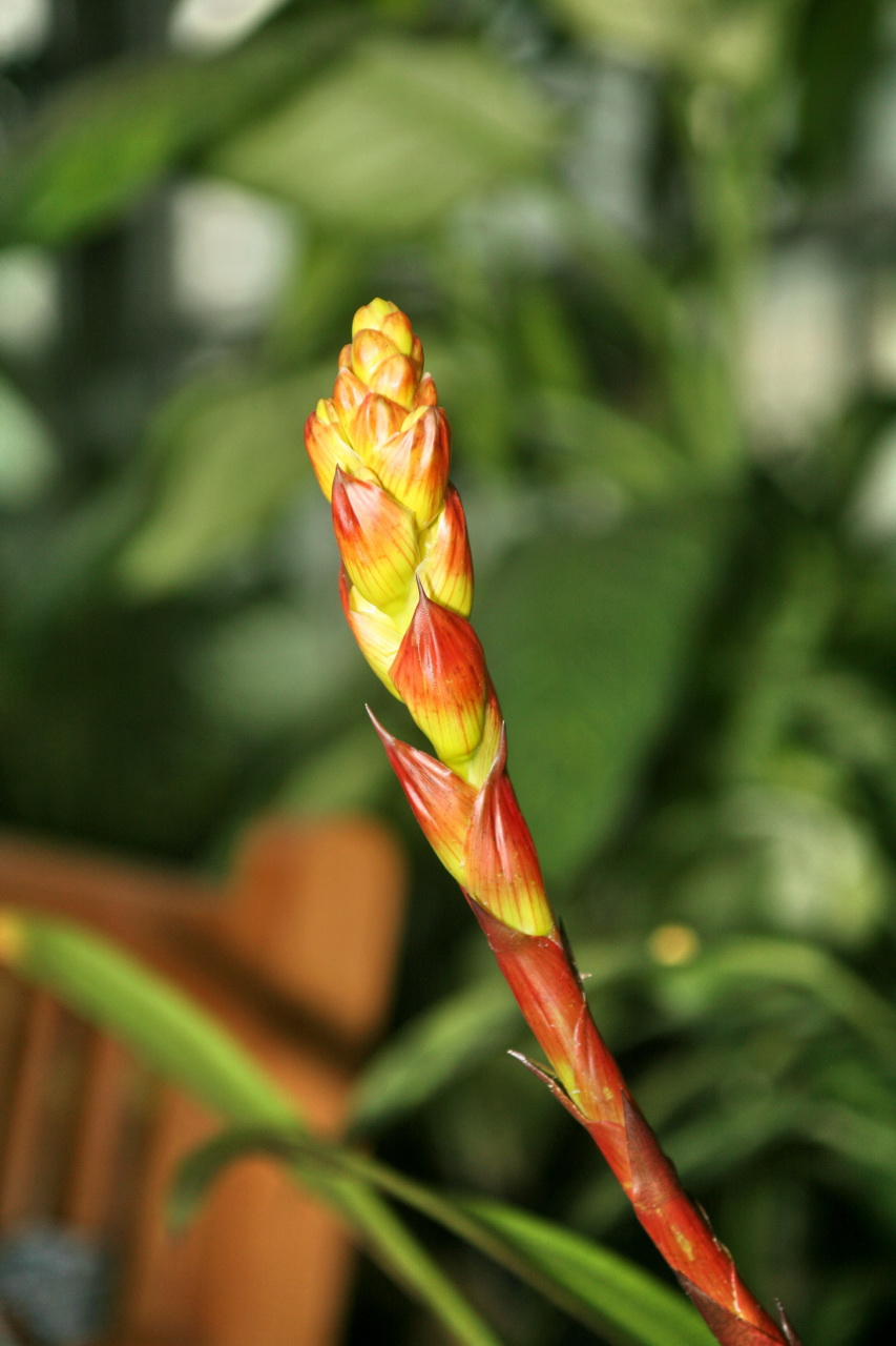 Guzmania musaica, Member of the Bromeliad family - Bromeliaceae